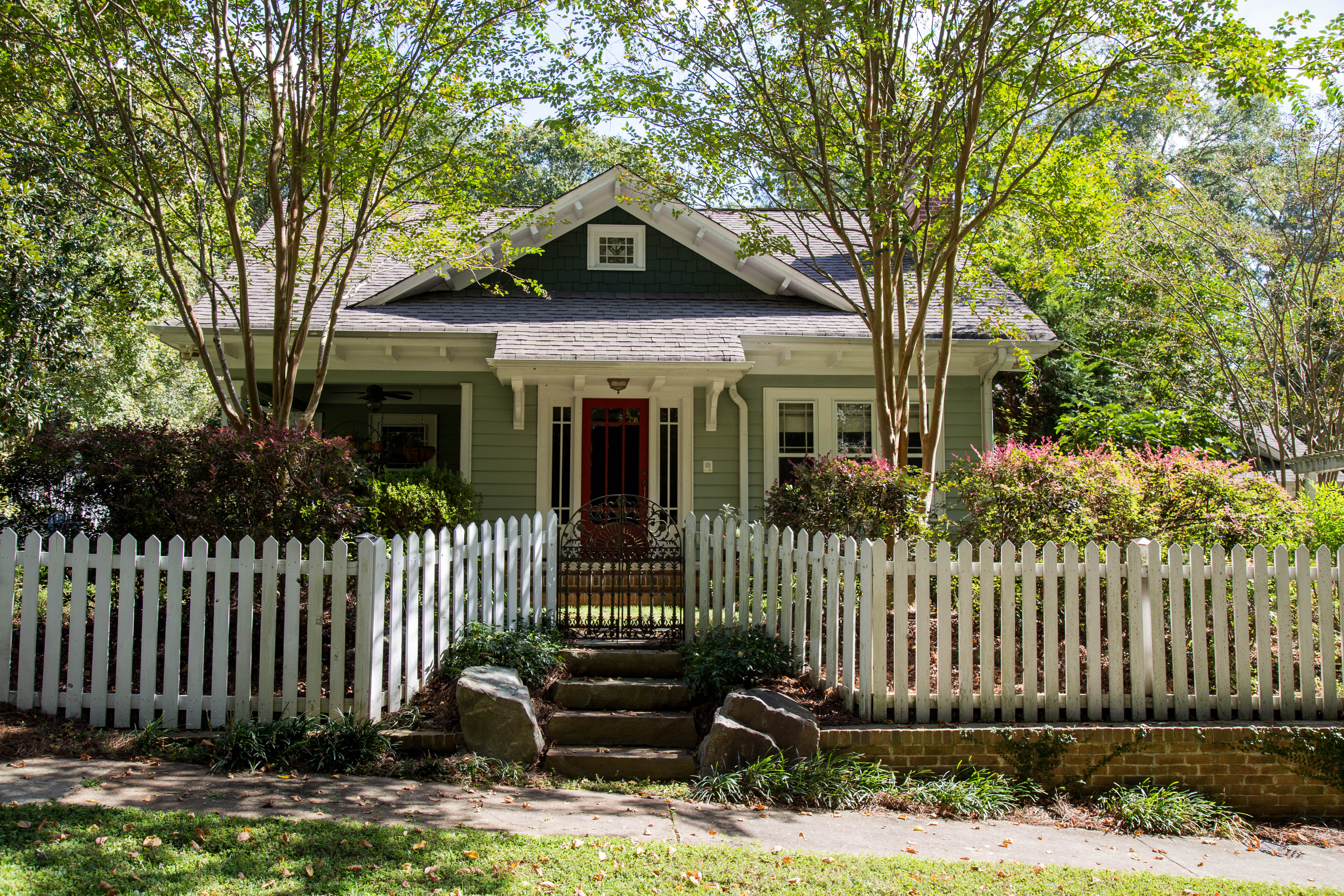 Collins Avenue Historic District